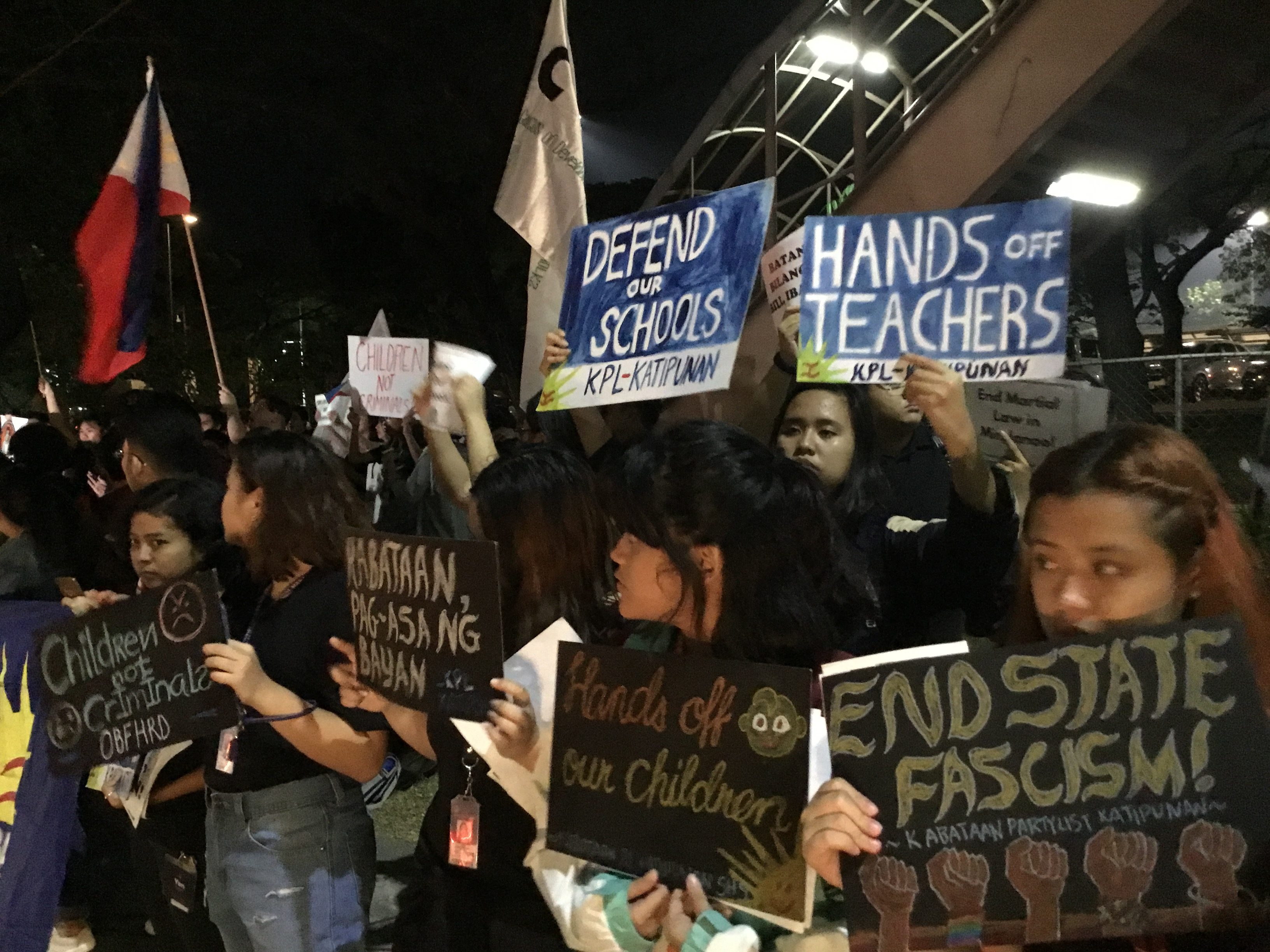 Mobilization against lowering of Minimum Age of Criminal Responsibility Ateneo de Manila